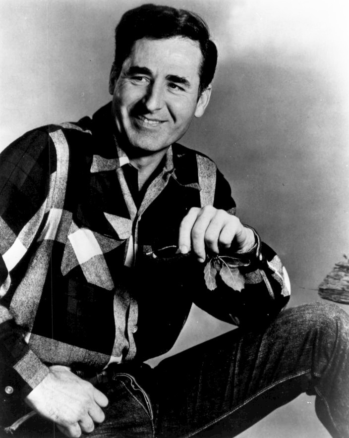 Publicity photo of Sheb Wooley.